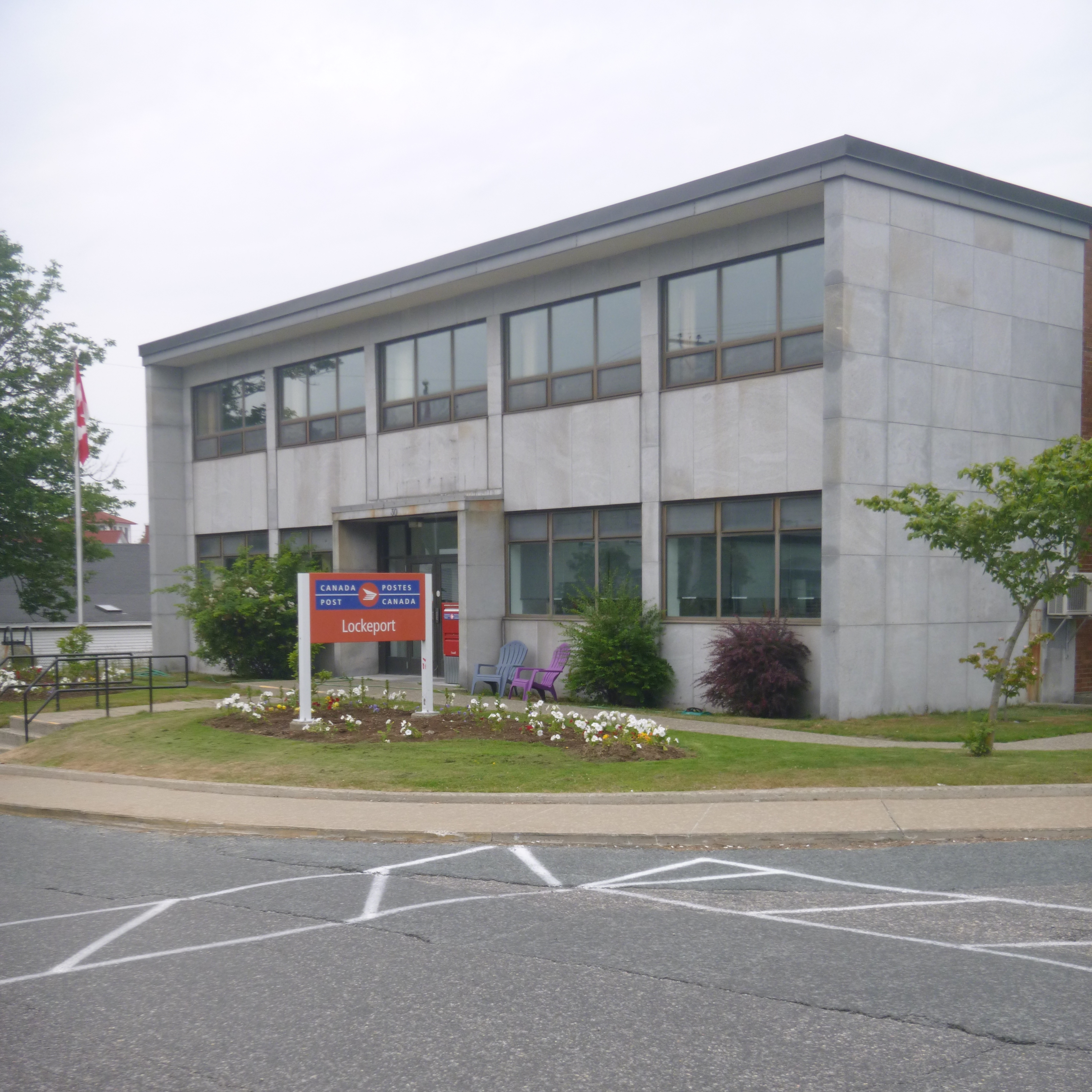 Post office in Lockeport, Shelburne County, Nova Scotia